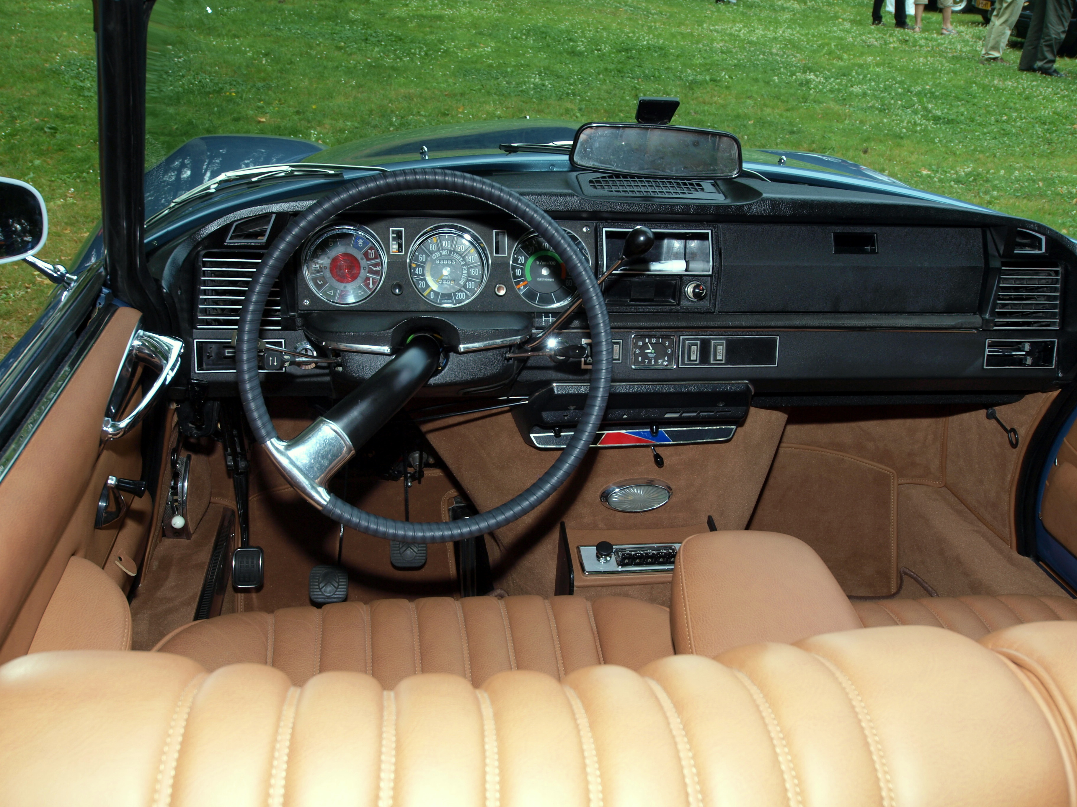 Citroën DS from Kleef, Germany